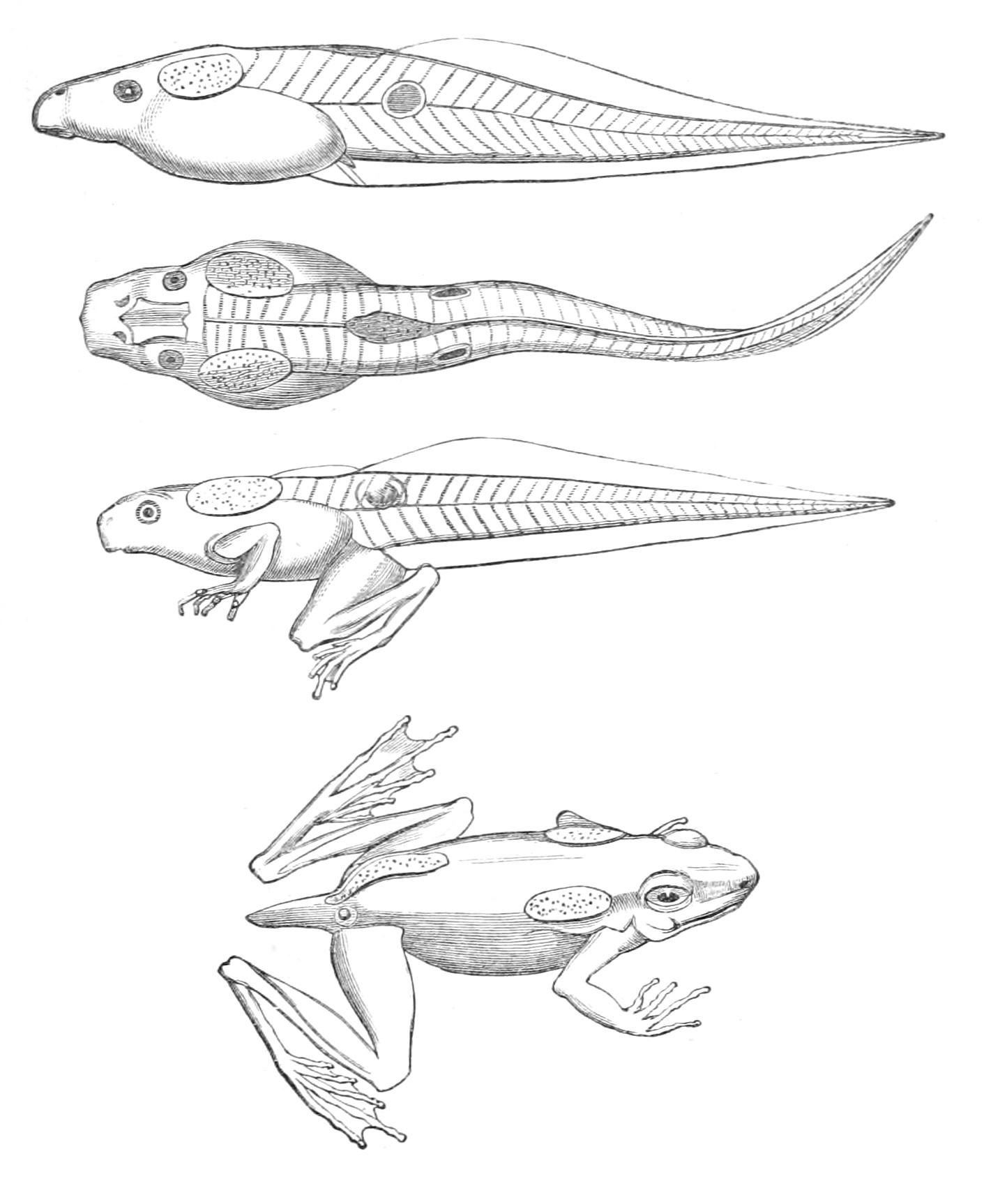 Rana alticola = Clinotarsus alticola